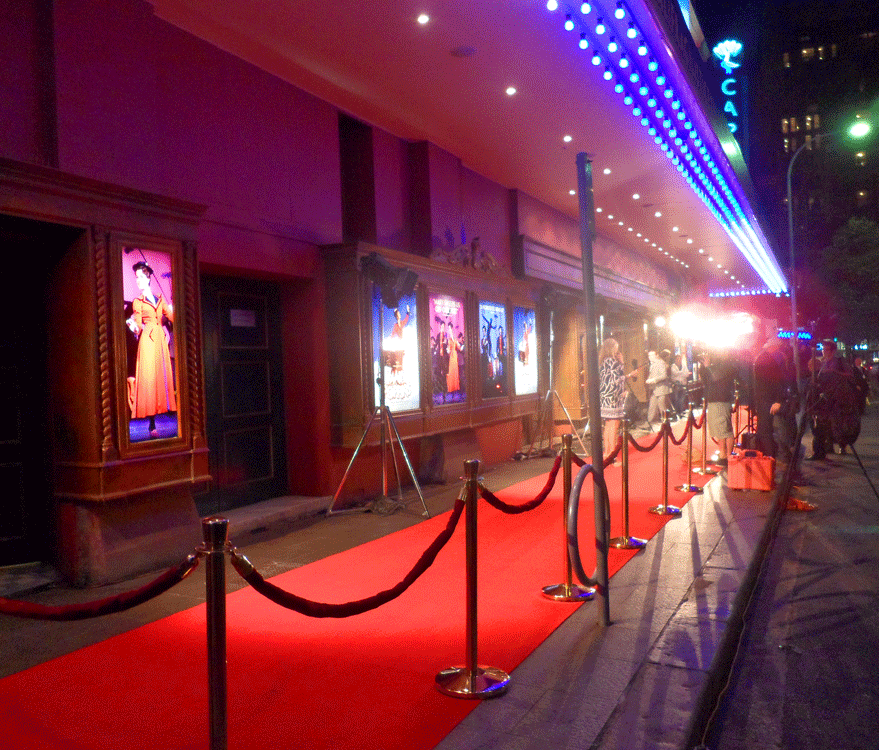 Capitol Theatre Mary Poppins Red Carpet